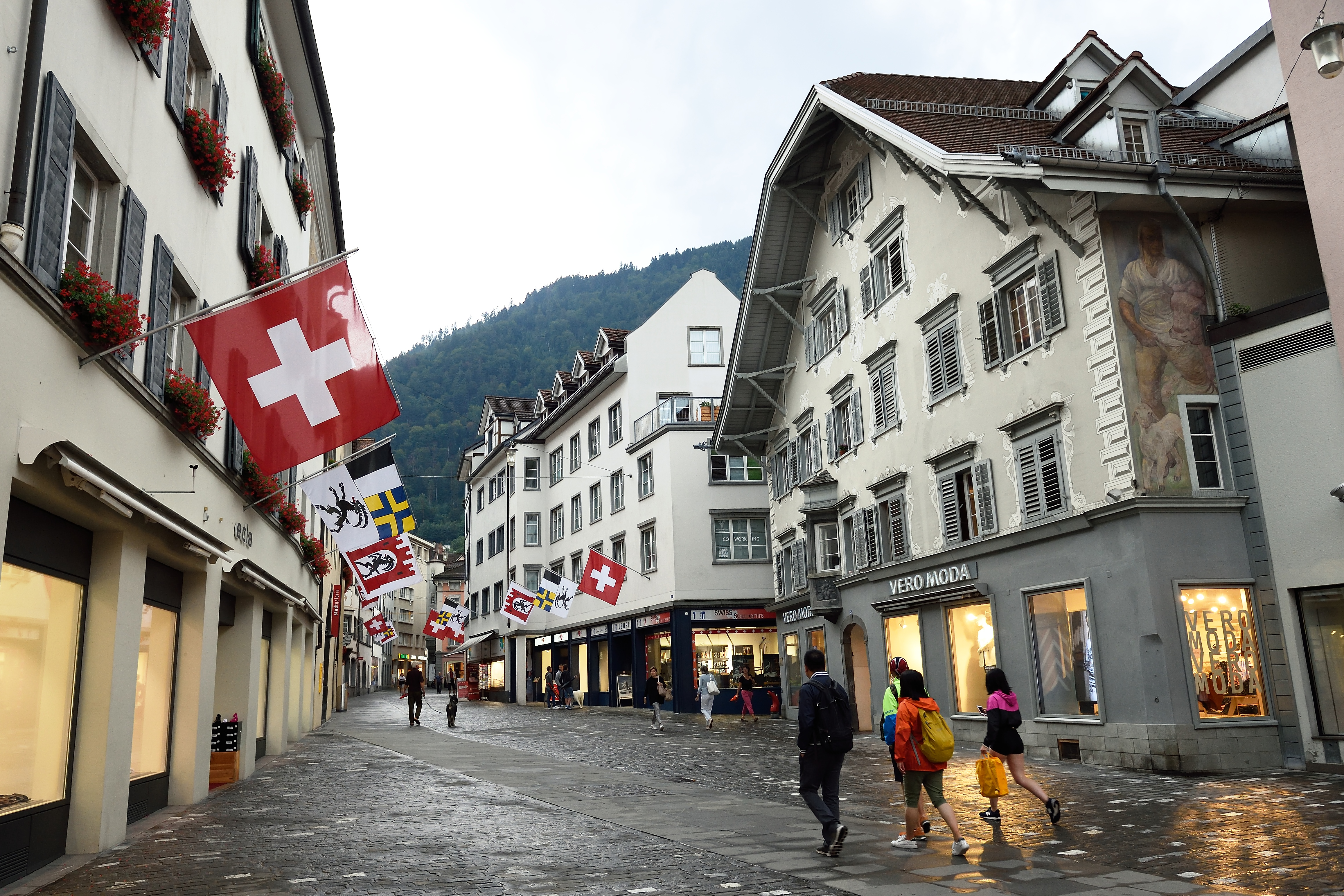 Street in Chur, Switzerland on rainy day in 2019